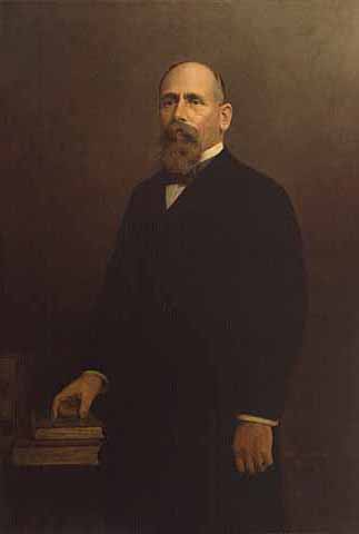 Oil painting of Minnesota Governor David M. Clough Painter: Herbert Conner (1851-1933) Art Collection, oil 1898 Location no. AV1996.9.14 Negative no. 83162